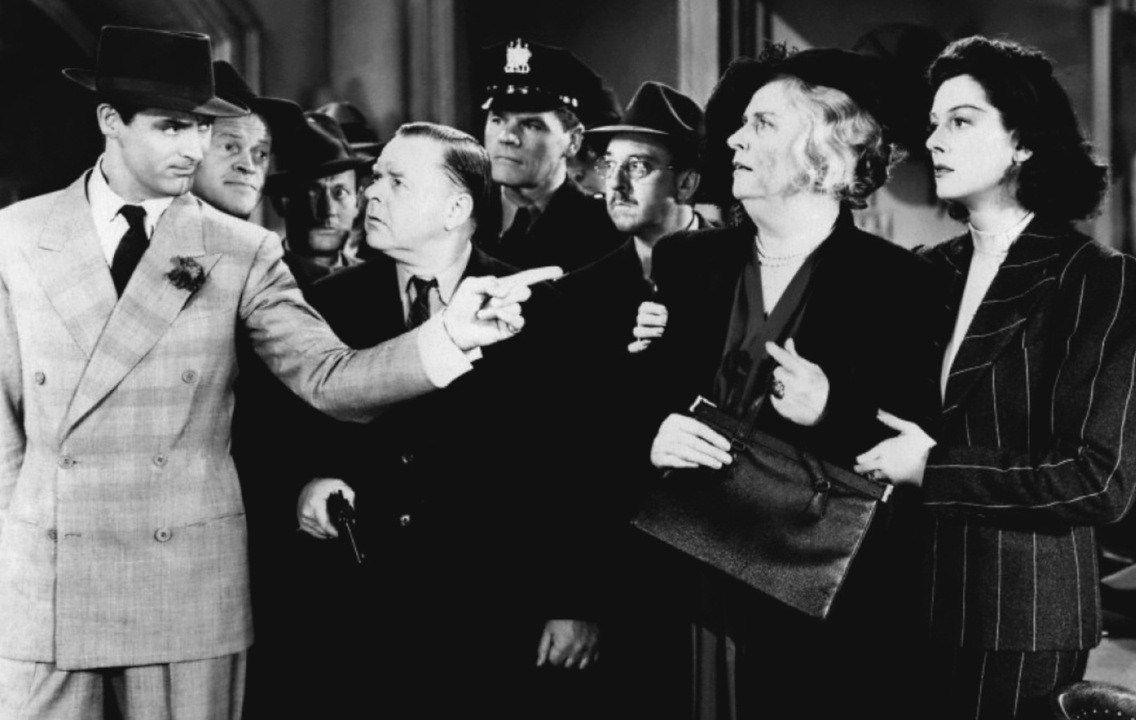 L. to R. : Cary Grant, Frank Jenks, Roscoe Karns, Gene Lockhart, Pat Flaherty, Porter Hall, Alma Kruger, and Rosalind Russell in His Girl Friday (1940). Rosalind Russell is wearing a costume designed by costume designer Robert Kalloch.